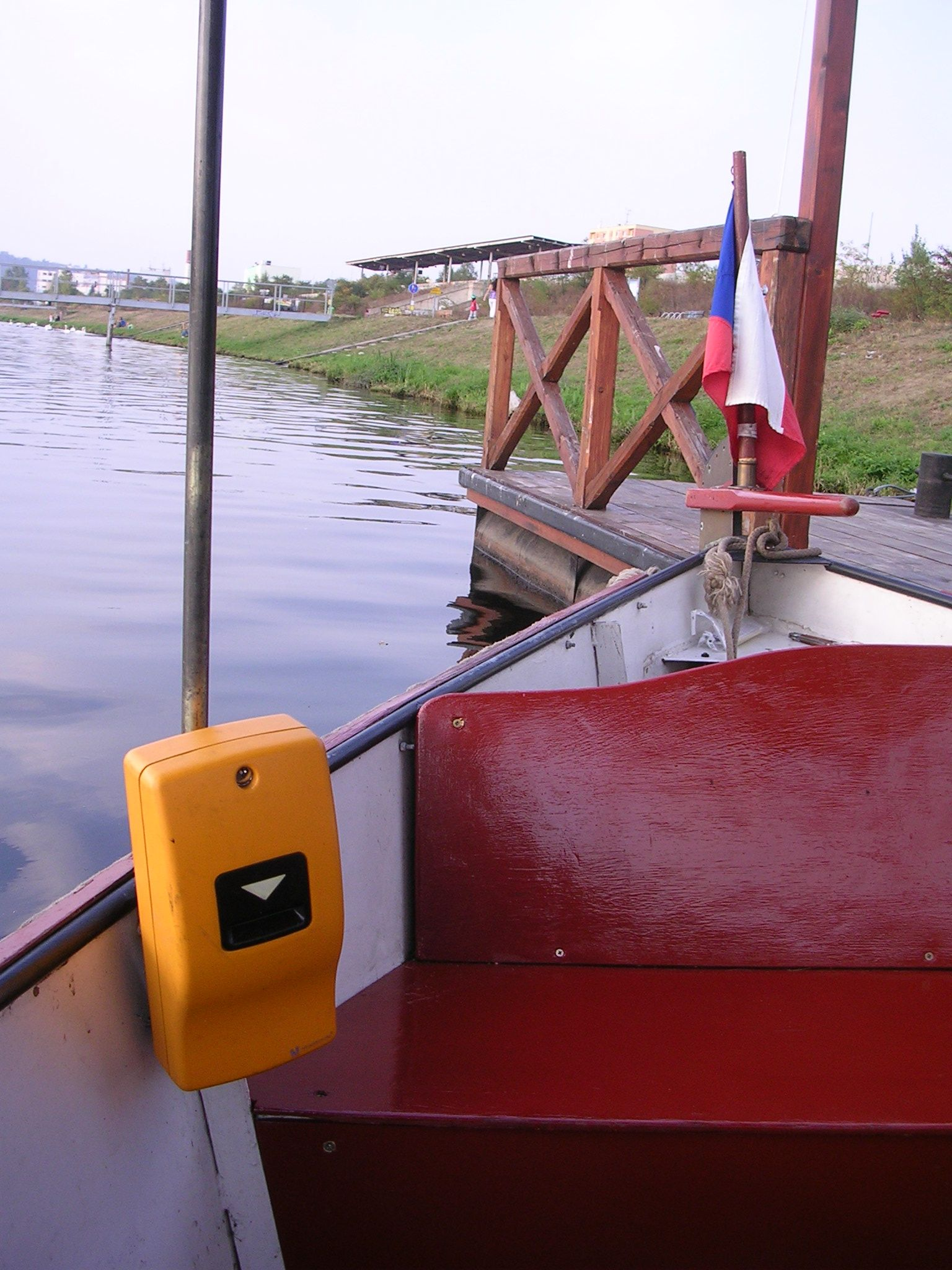 Modřany, Prague, the Czech Republic. Vltava Ferry Modřany - Lahovičky.